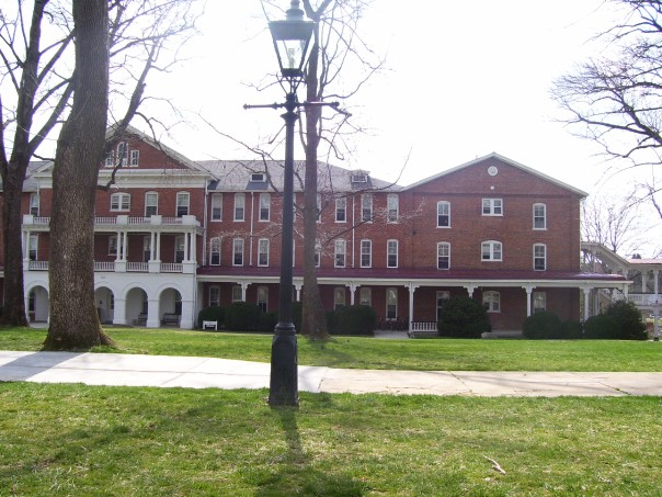 This is a view of the West dormitory at Hollins University from front quad. I took it in Spring 2006.